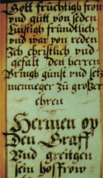 Poem op Herman op den Greaff and his wife Greitgen (Greitje) Pletjes: God is fruitful, devout and good to all sides ...